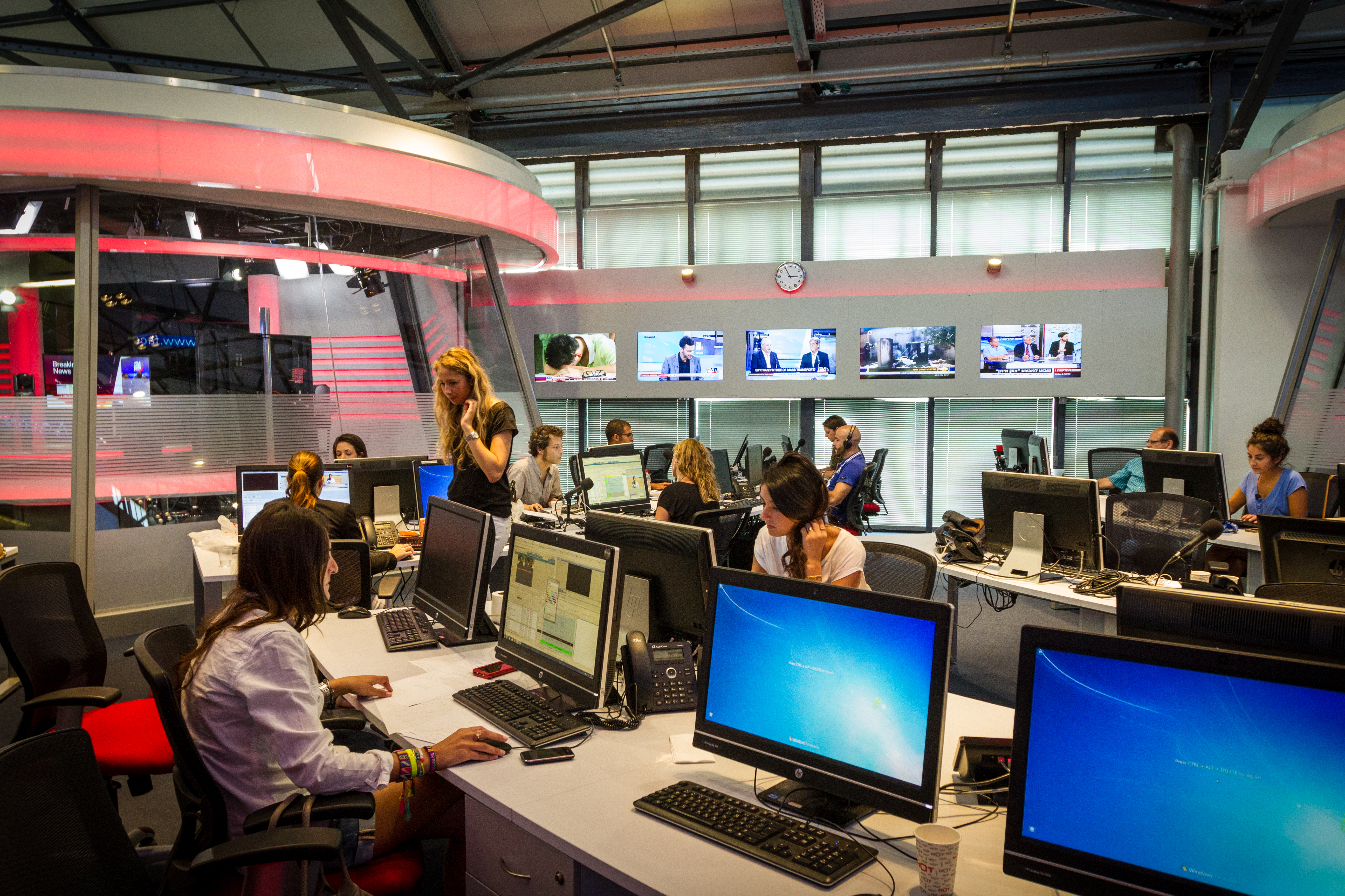 I24news Tel Aviv Yaffo 14 juillet 2014